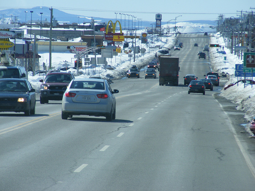 Ville de Thetford Mines, Boulevard Frontenac.